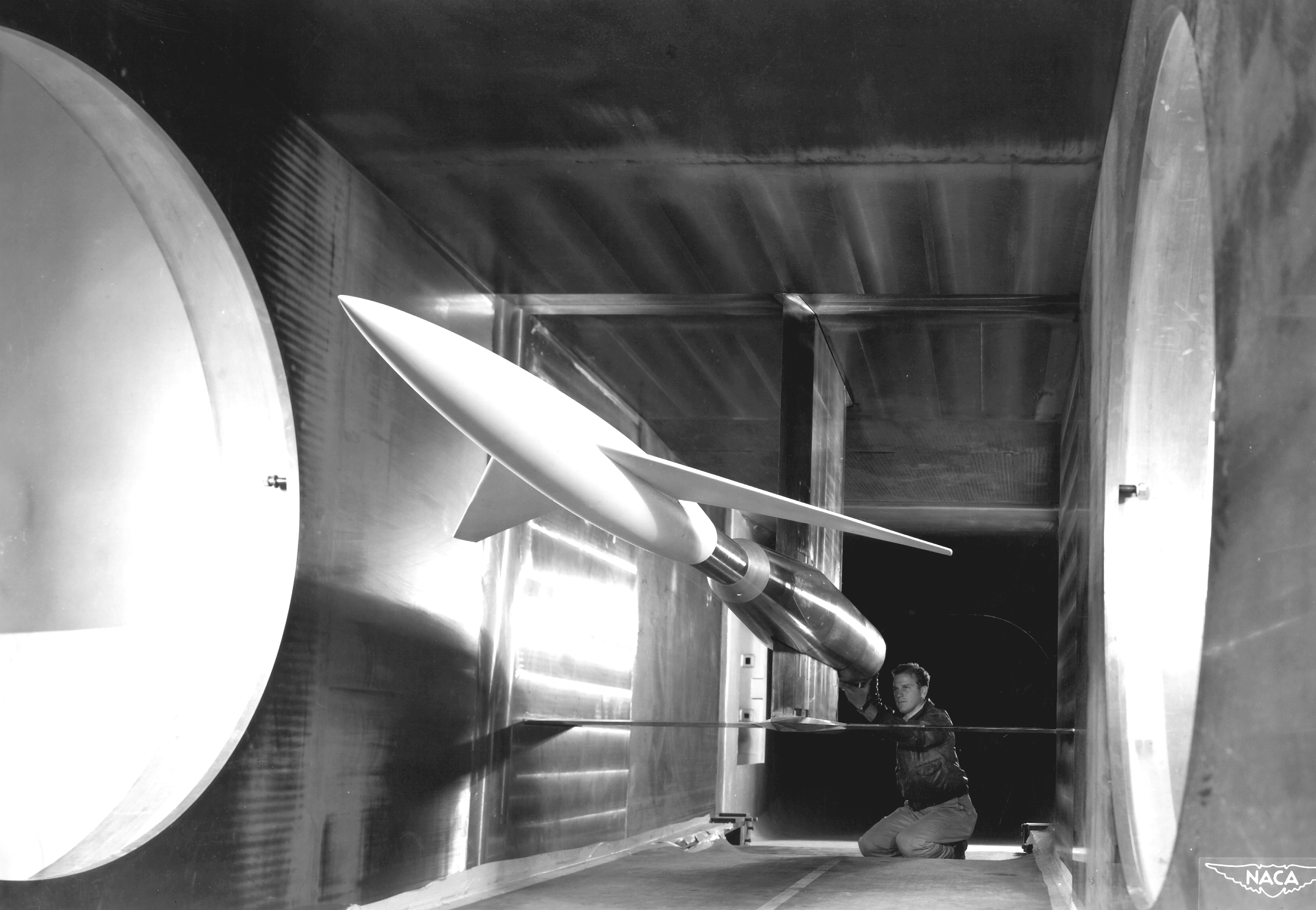 Testing advanced designs for high-speed aircraft, an engineer makes final calibrations to a model mounted in the 6 x 6 Foot Supersonic Wind Tunnel at the NACA Ames Aeronautical Laboratory, Moffett Field, California.